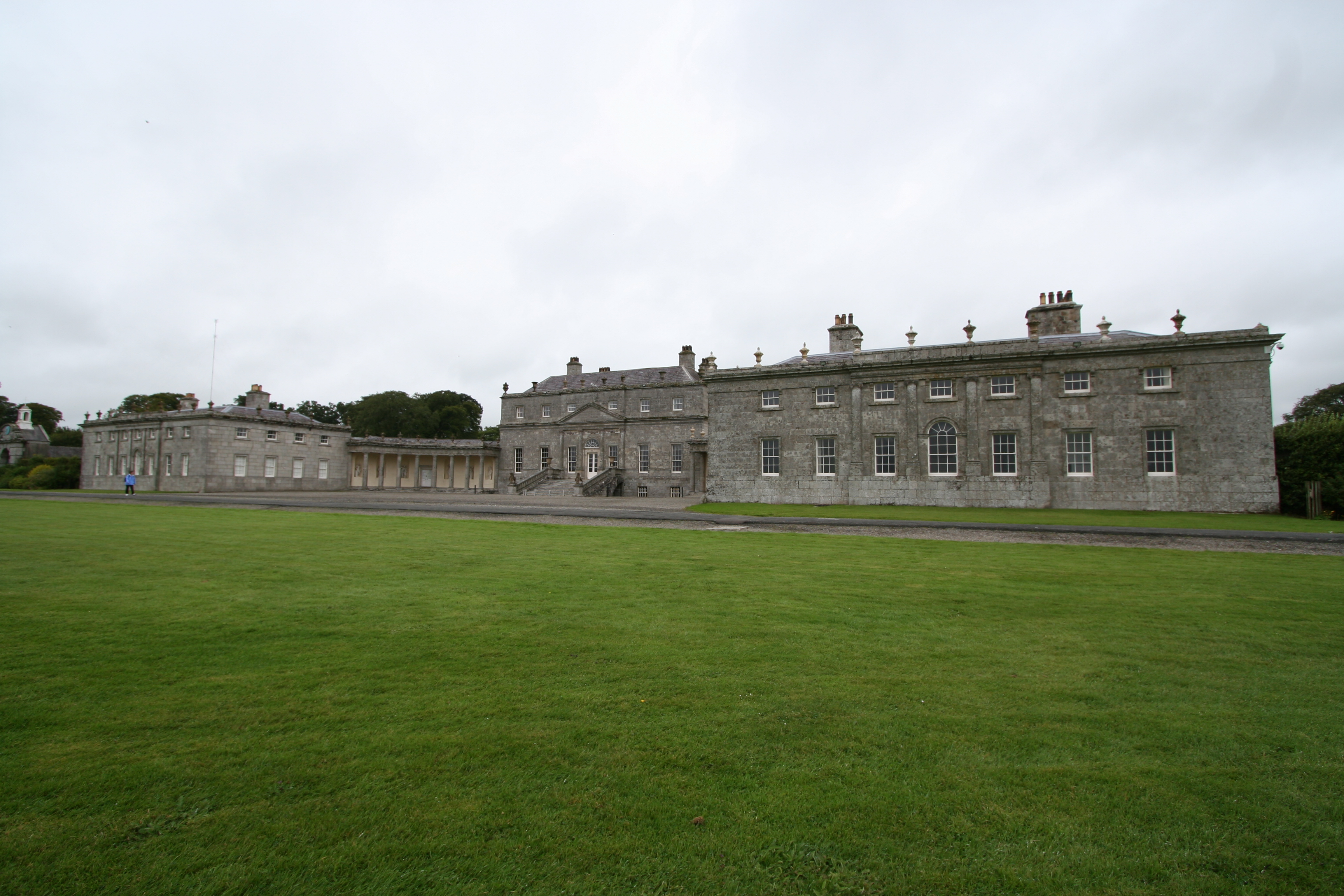 Russborough house en el condado de Wicklow